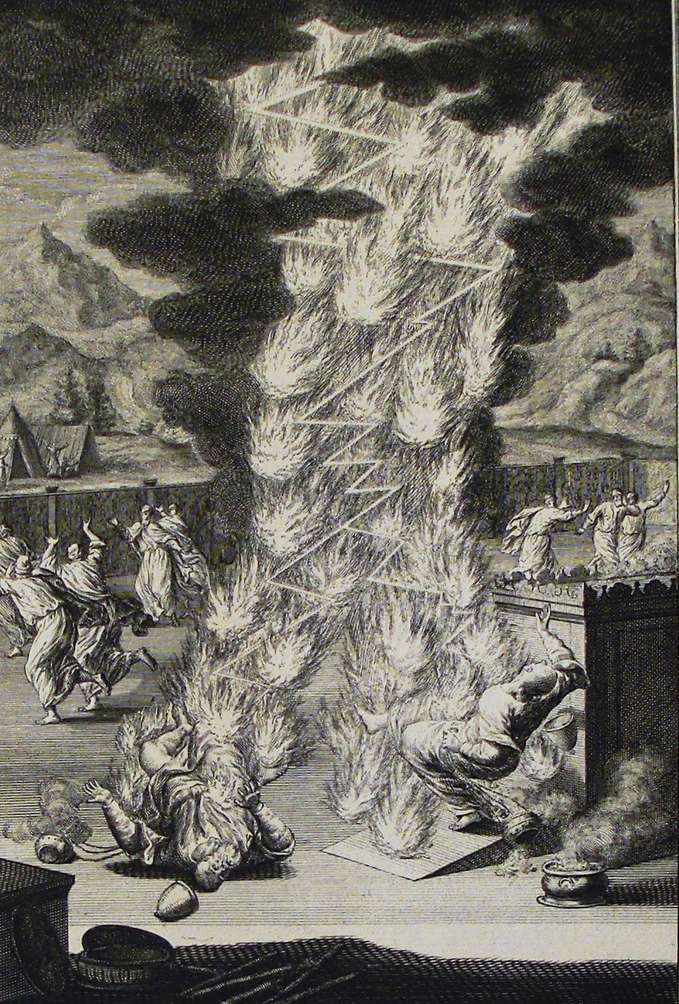 A print from the Phillip Medhurst Collection of Bible illustrations in the possession of Revd. Philip De Vere at St. George’s Court, Kidderminster, England.